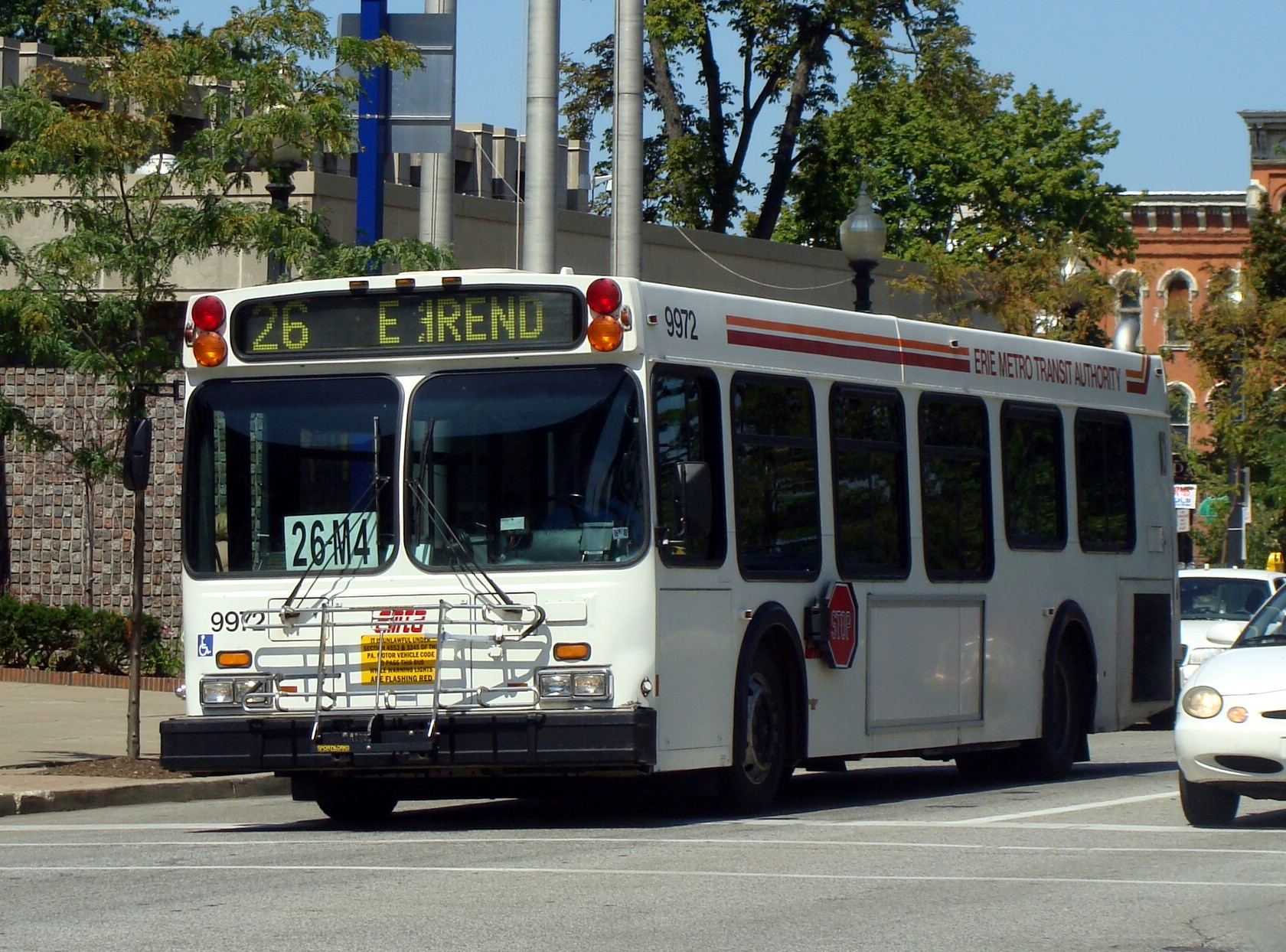 A New Flyer 35LF run by the Erie Metropolitan Transit Authority on State Street in downtown Erie, Pennsylvania.